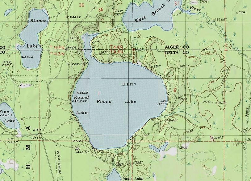 A portion of the Corner Lake Quadrangle topo map showing the Round Lake area in Michigan